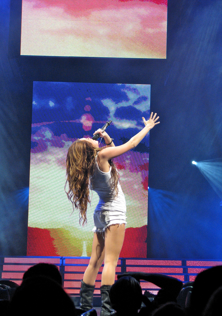 A teenager singing.